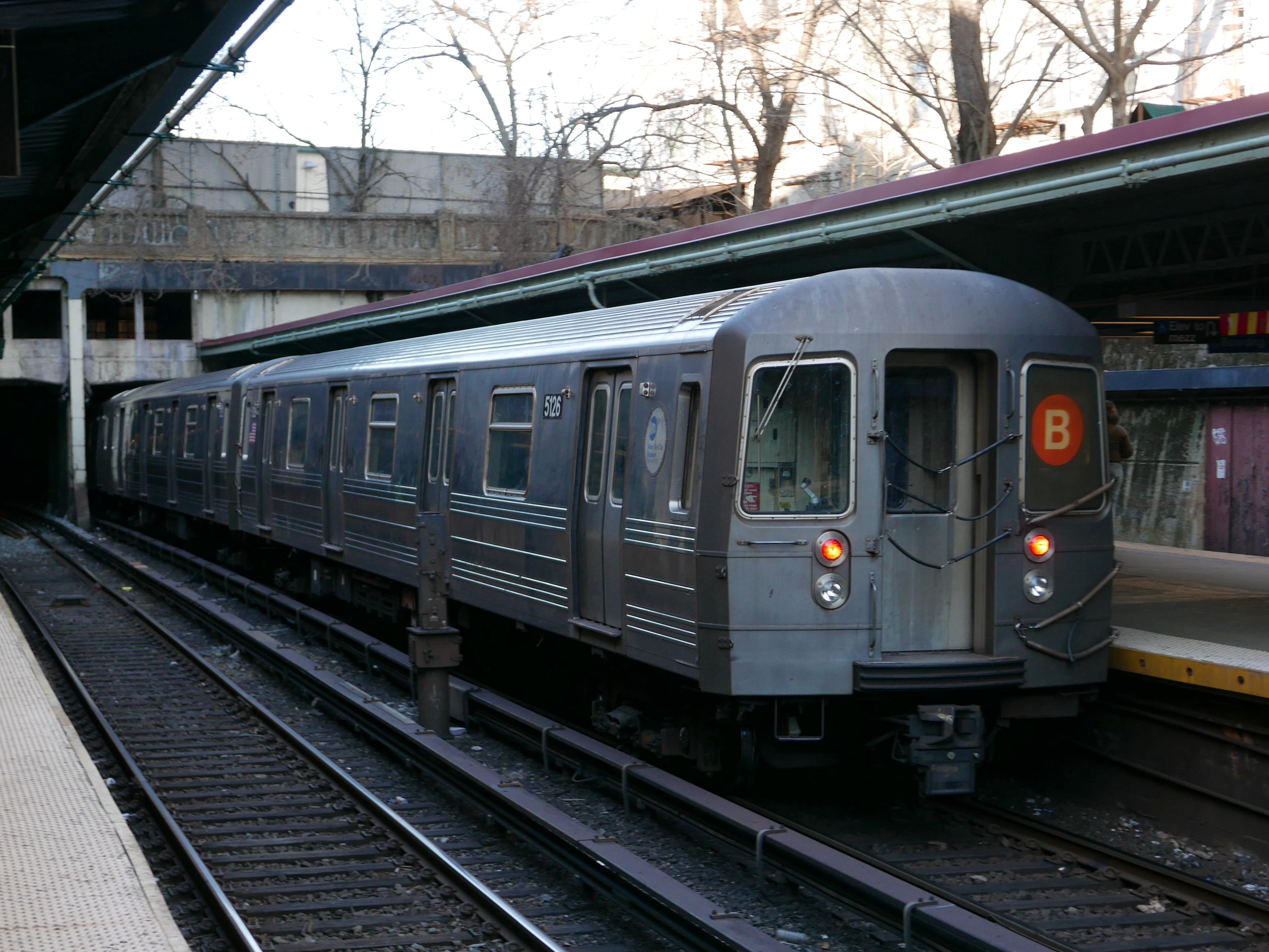 Taken at Prospect Park Station from the southbound platform. The R68A B train is northbound, leaving the station. Camera facing northbound.